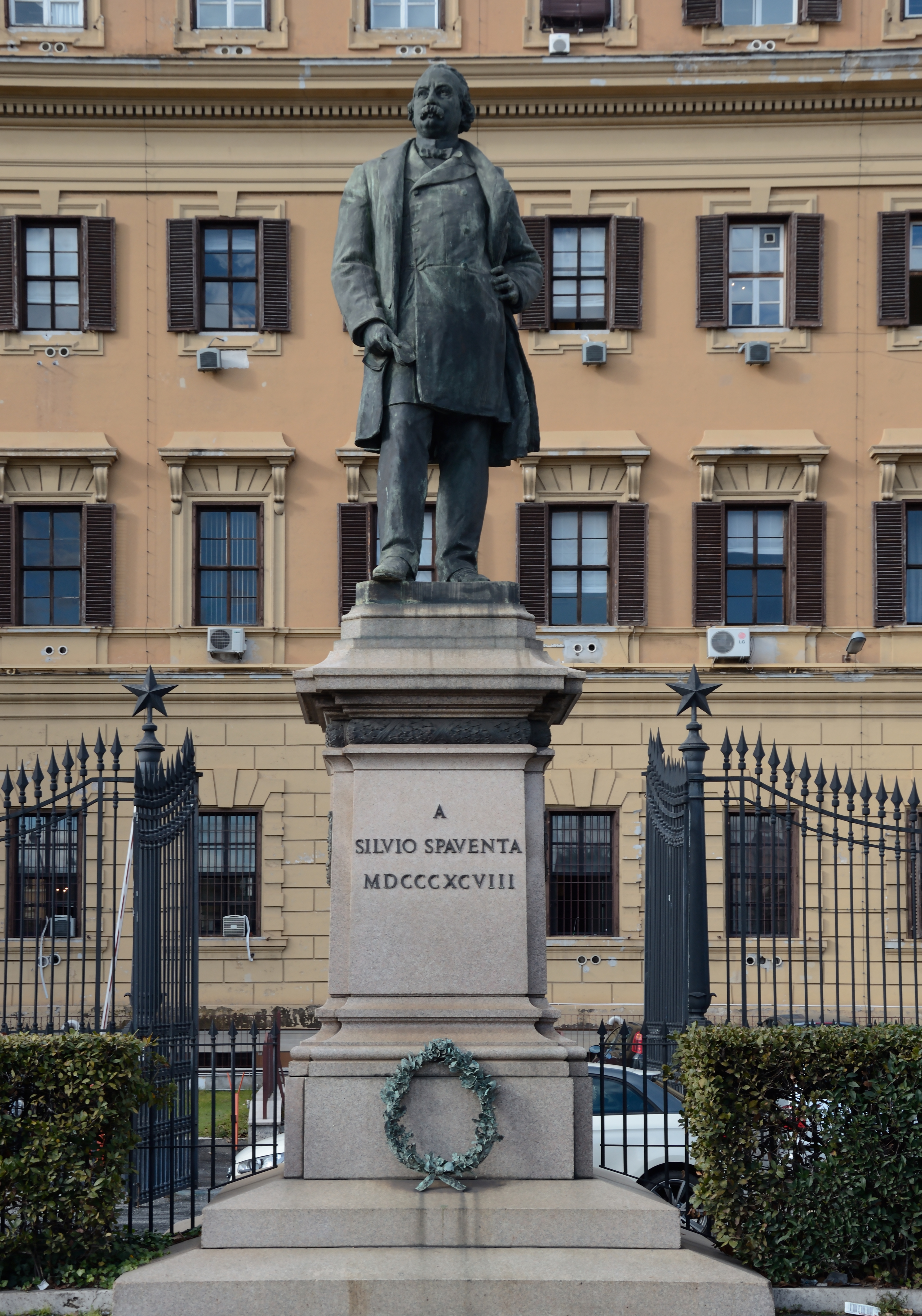 Copy of a statue of Silvio Spaventa in front of the ministry of finance, Via Venti Settembre (Rome). The original is in Bomba, province of Chieti